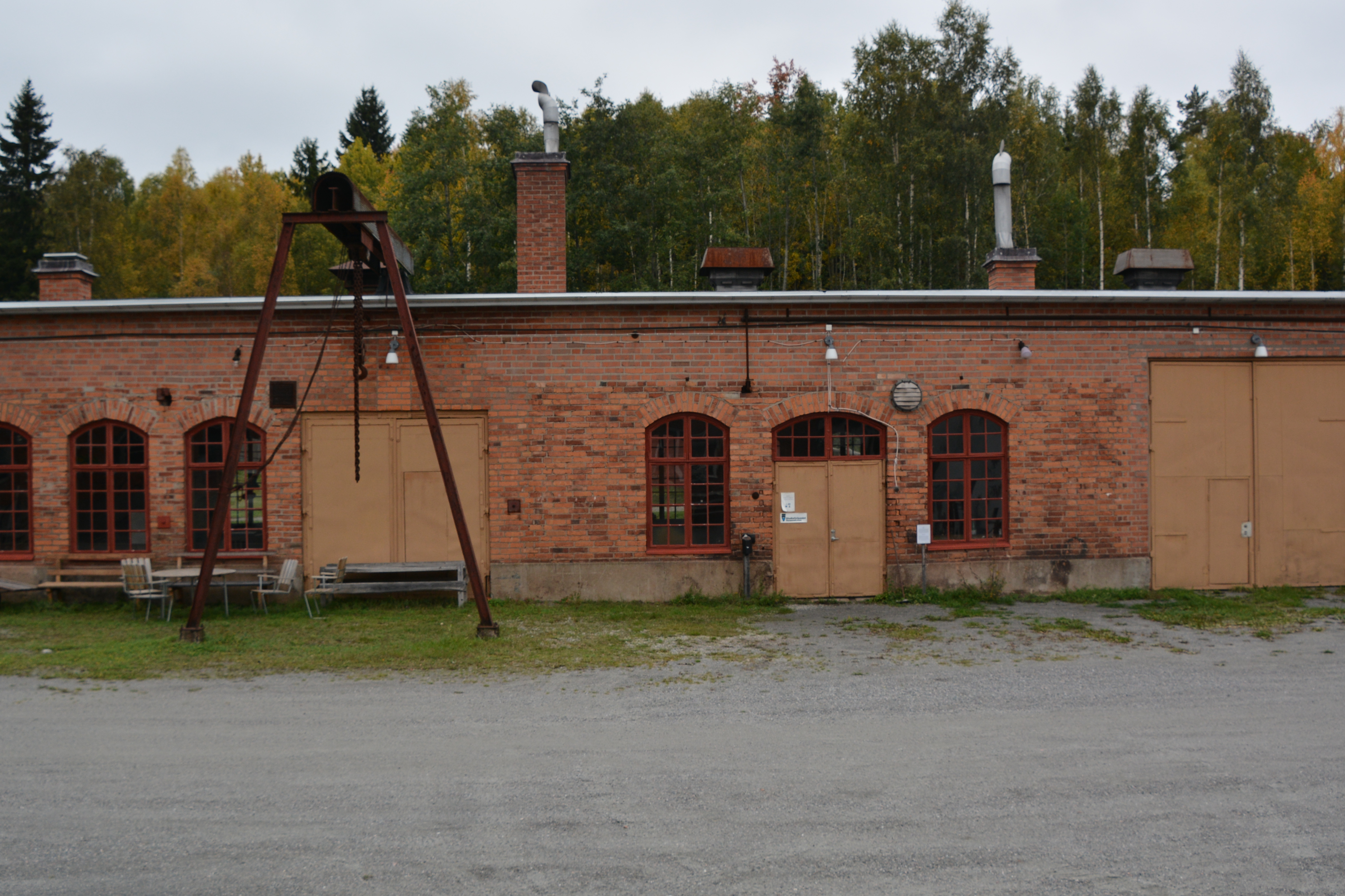 Smedjan, Stripa gruva